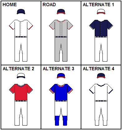 Uniforms of the Nashville Sounds minor league baseball team